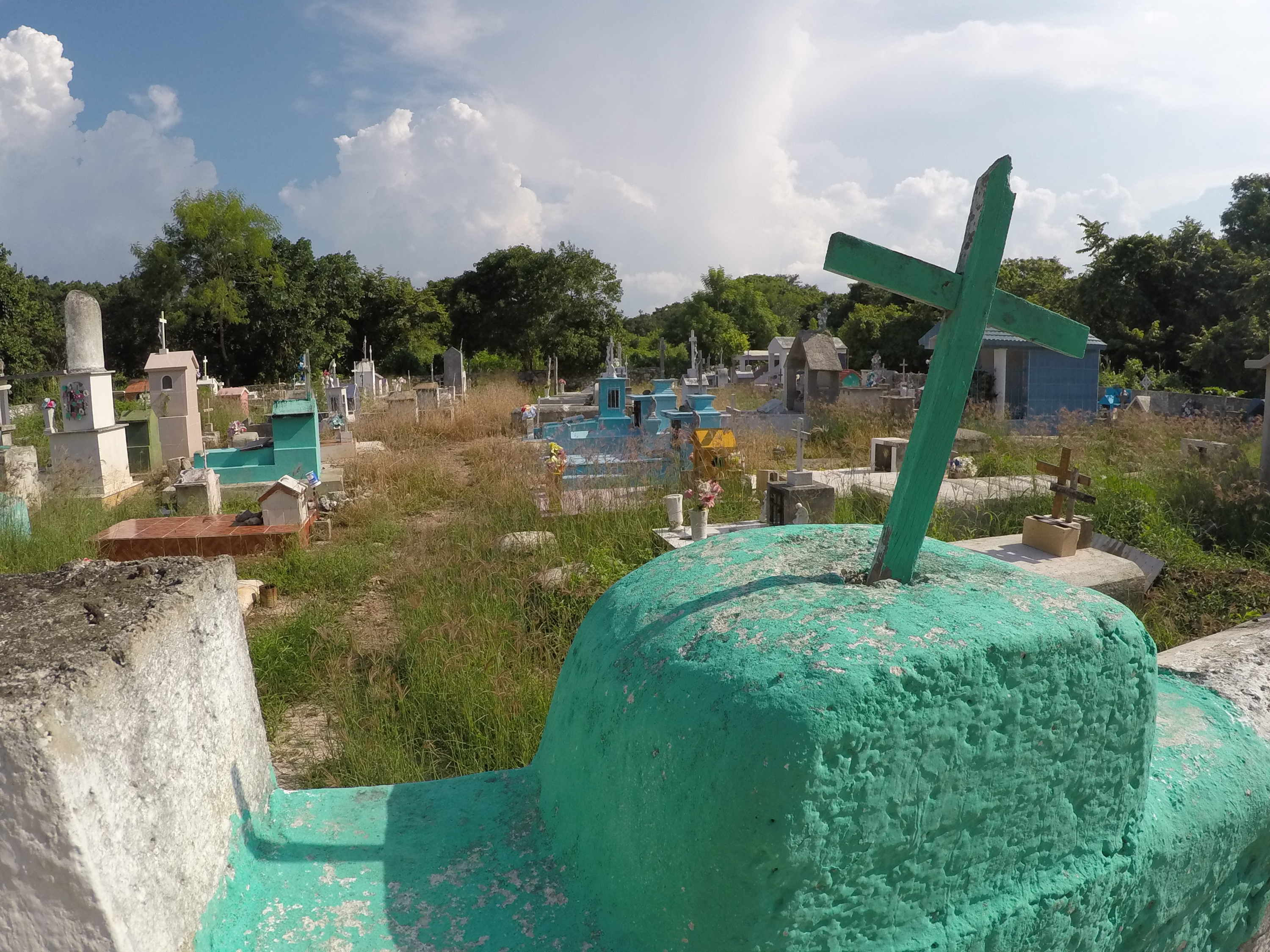 Loche, Yucatan, cementery